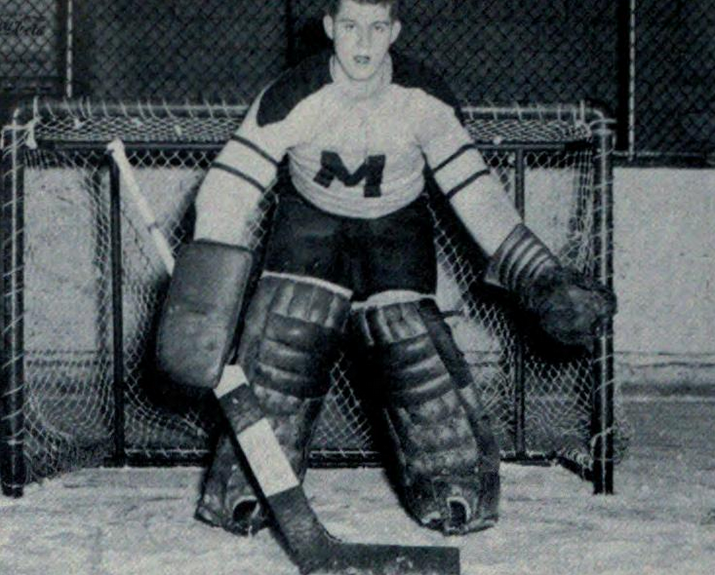 Gary Smith, circa 1962